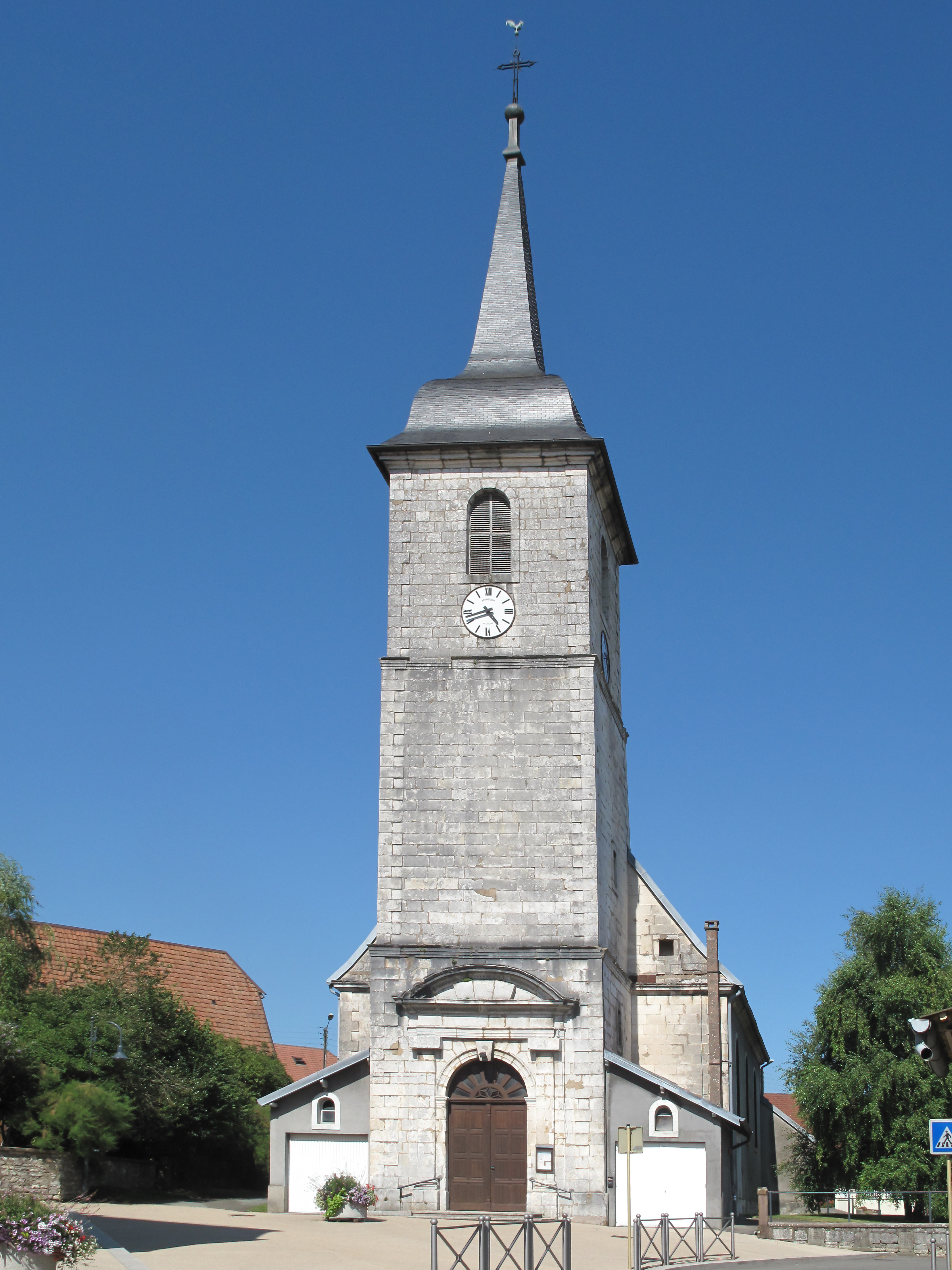 Perouse, church: l'église Saint-Mathieu